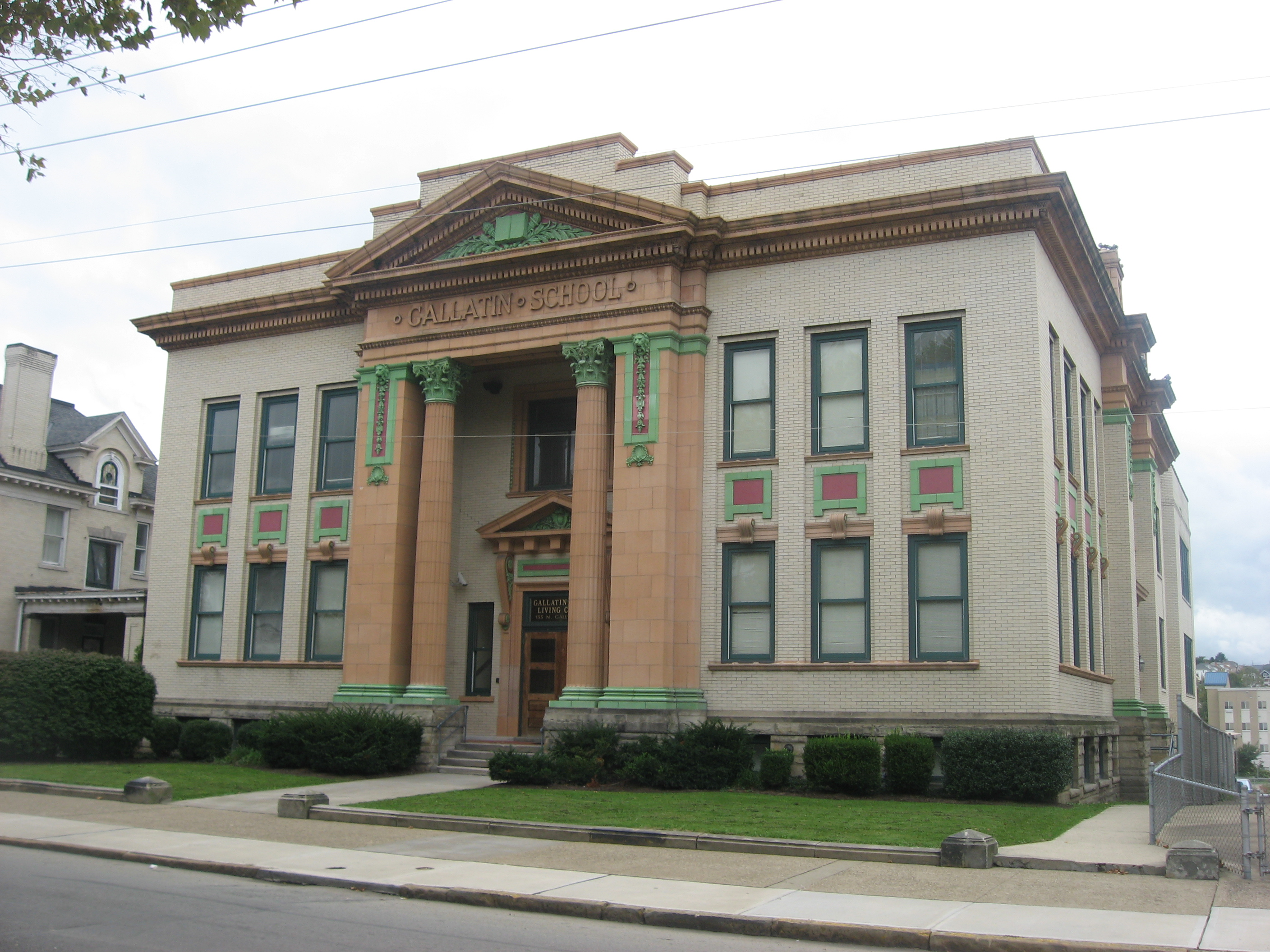 Front and northern side of the Gallatin School, located at 165 N. Gallatin Avenue in Uniontown, Pennsylvania, United States. Built in 1908, it is listed on the National Register of Historic Places.